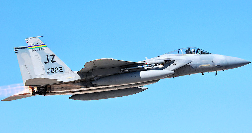 122d Fighter Squadron - McDonnell Douglas F-15C-38-MC Eagle 84-0022